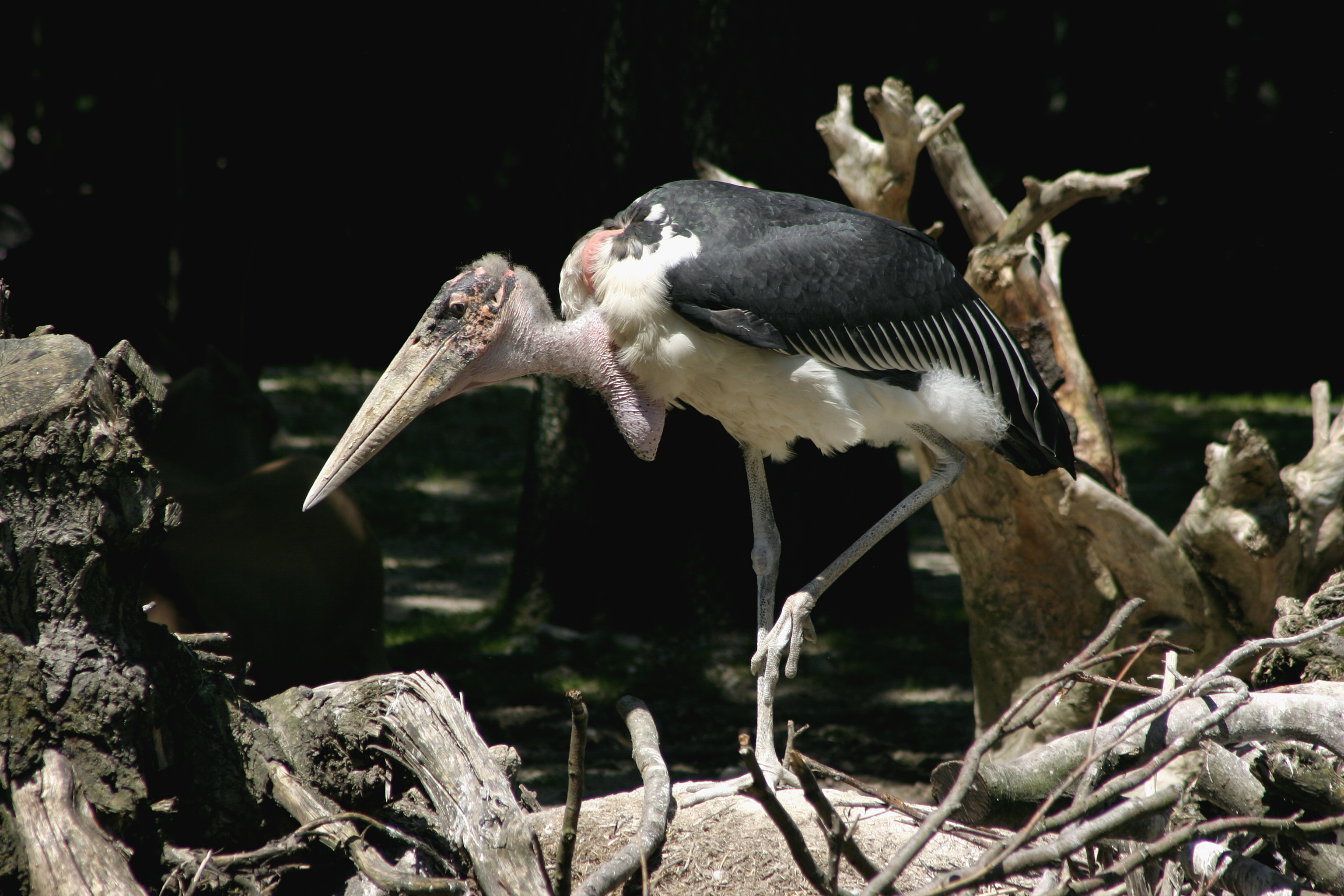 Marabou Stork